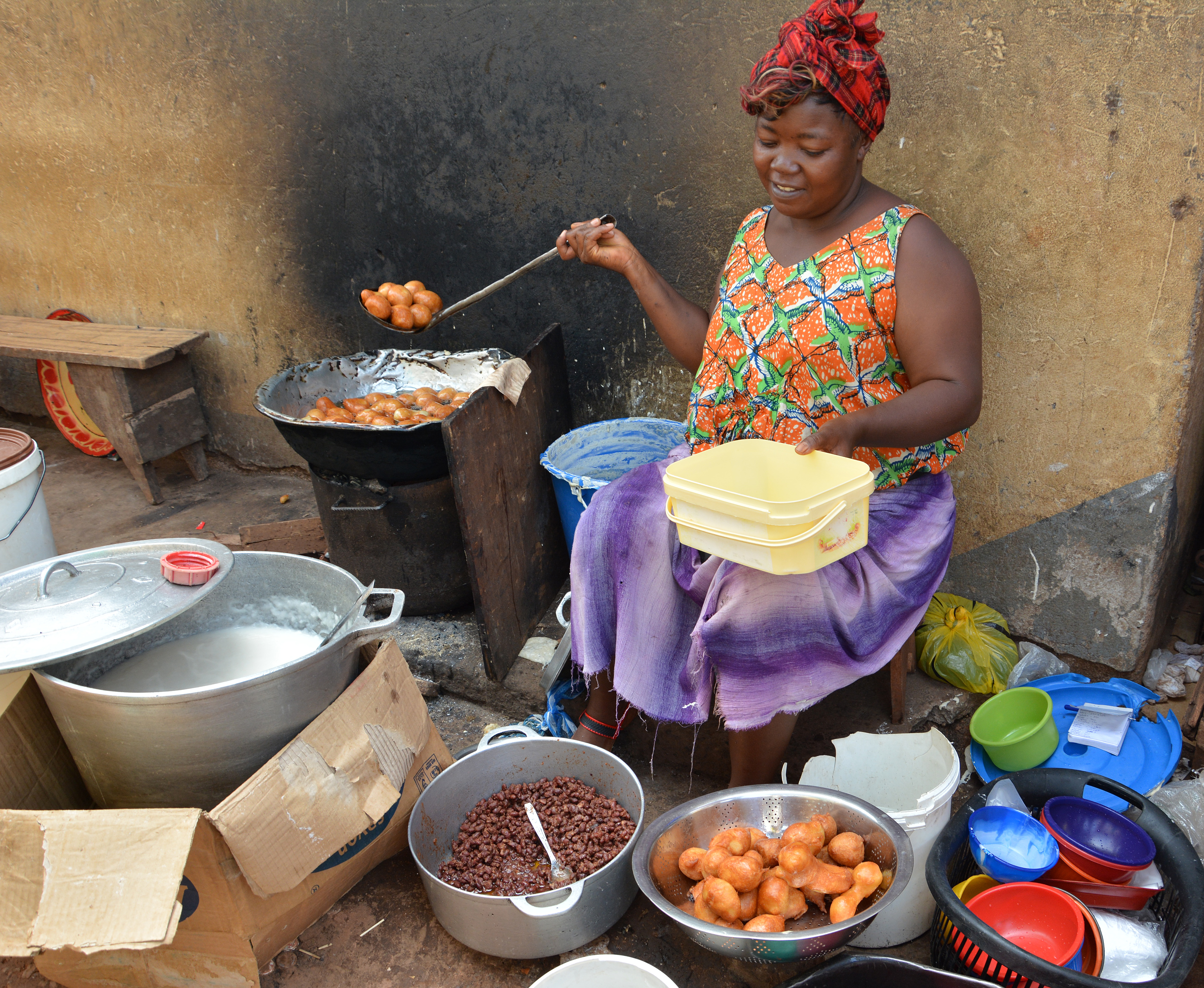 This is an image of food from Cameroon